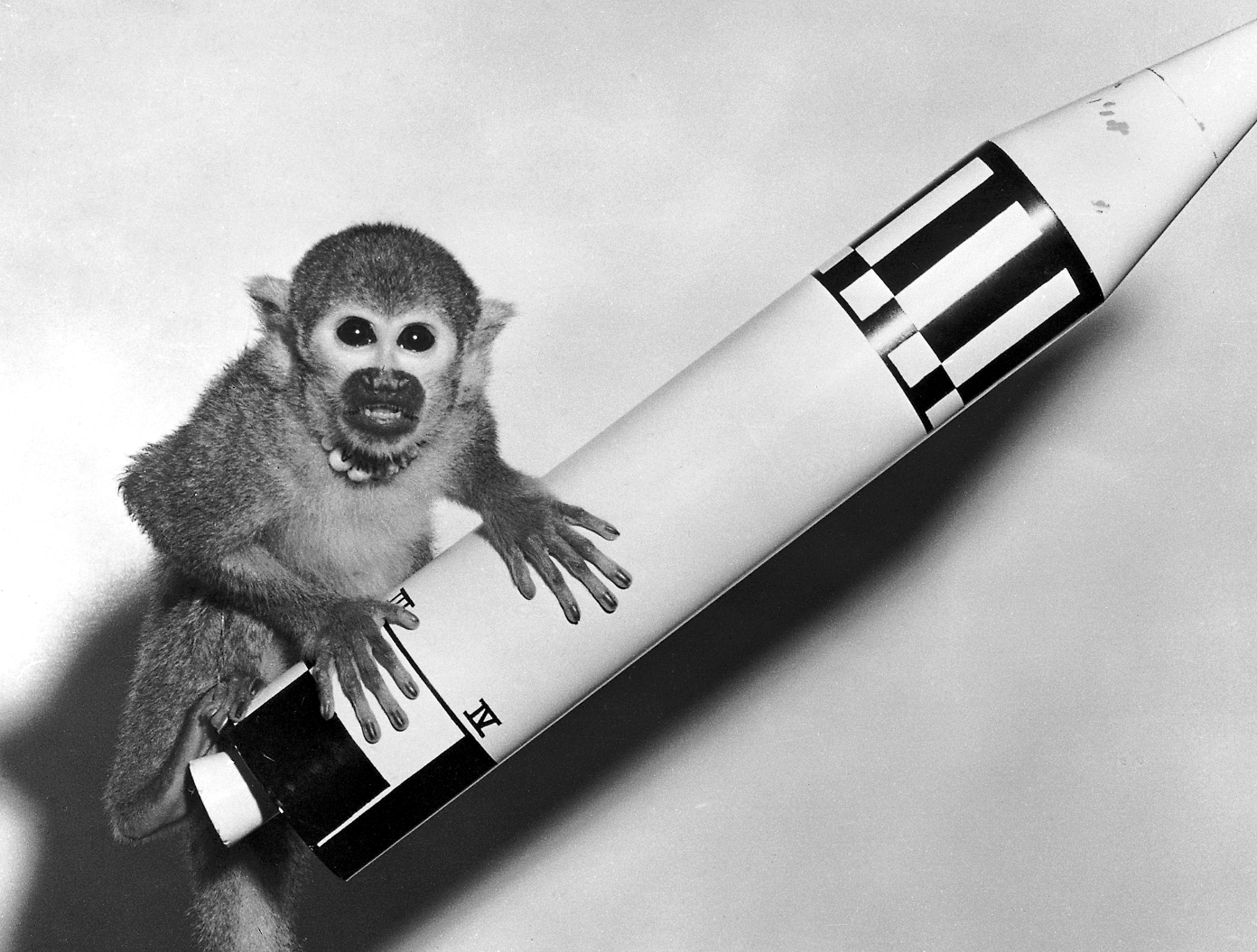 Monkey Baker with a Model Jupiter Vehicle.